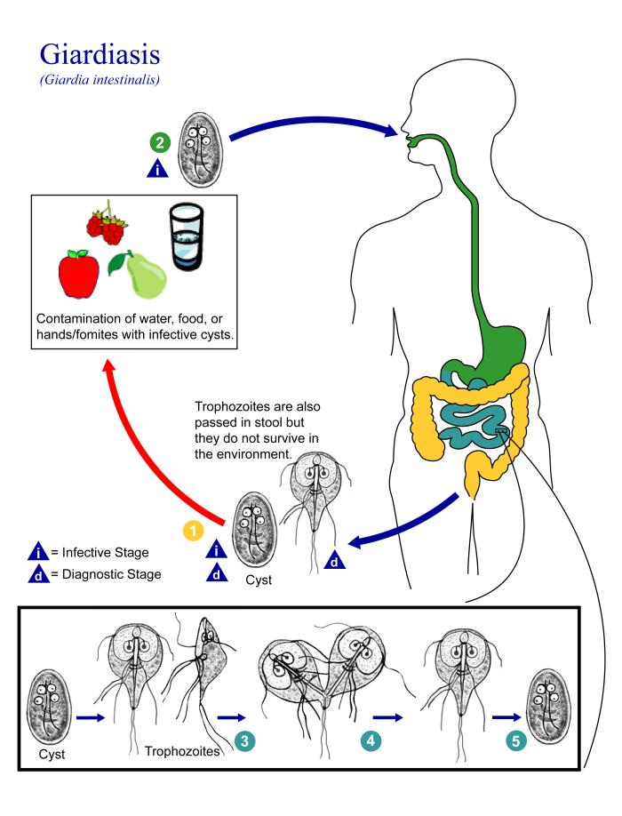 Life cycle of Giardia lamblia (intestinalis), the causal agent of Giardiasis.